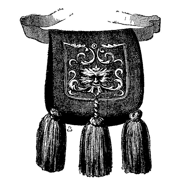 Alms Bag taken from some Tapestry in Orleans, Fifteenth Century. Project Gutenberg text 10940